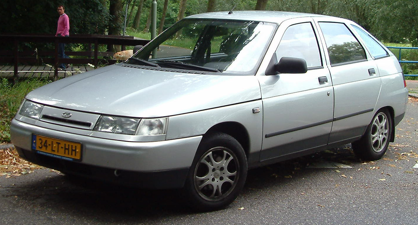 Lada 112, a hatchback produced since 1996 by Russian car maker Autovaz.